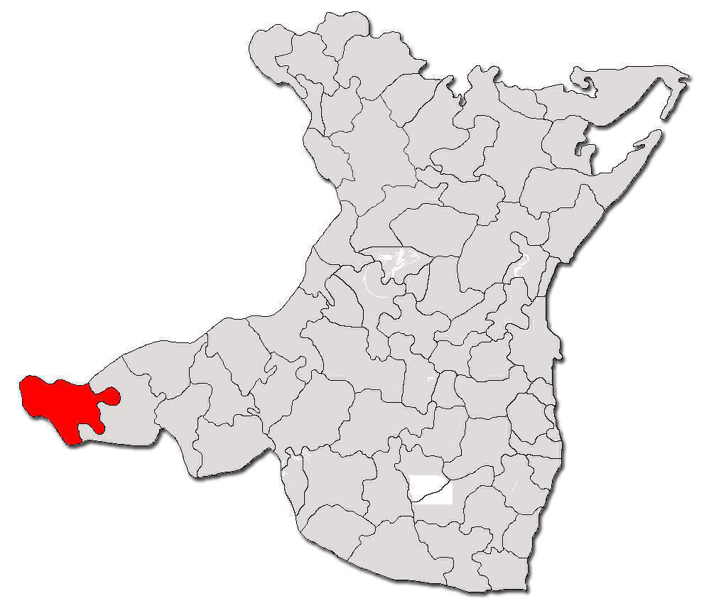 Countour map of Ostrov commune